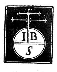 Sessa's mark